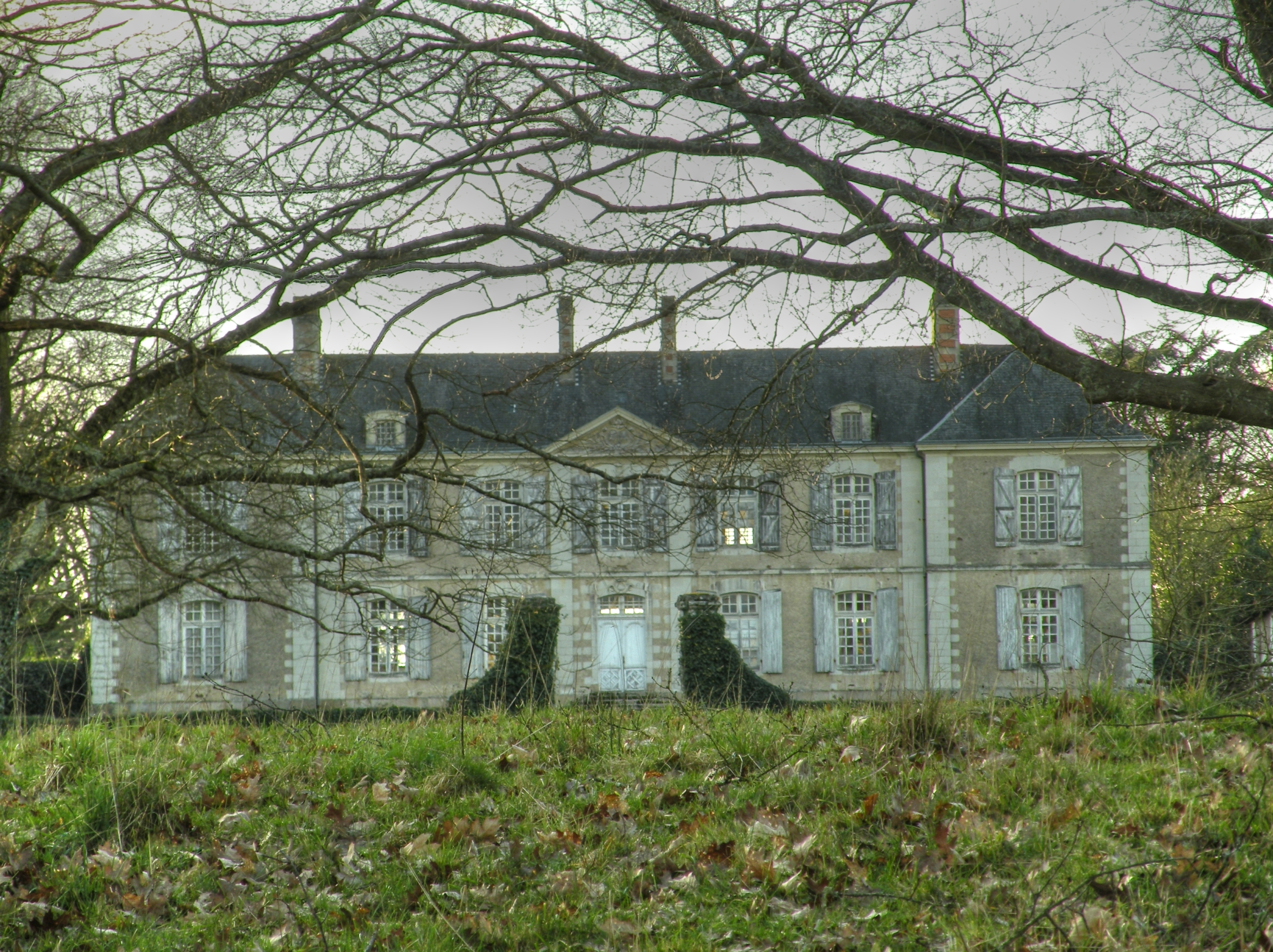 Rochefort castle in La Haie-Fouassière